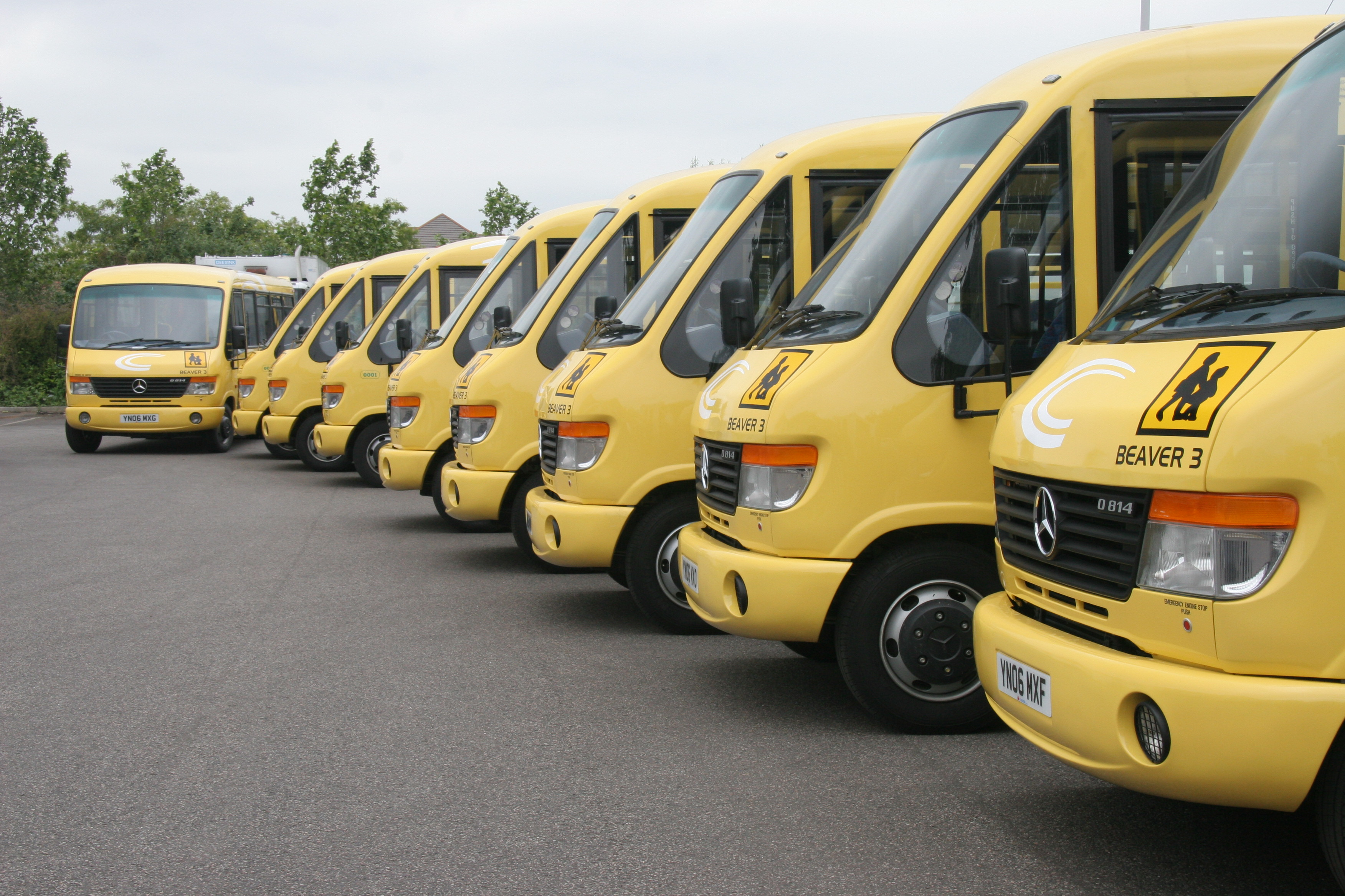 Special needs education transport services in Waltham Forest, London, England, operated by CT Plus, part of HCT Group. for London Borough of Waltham Forest